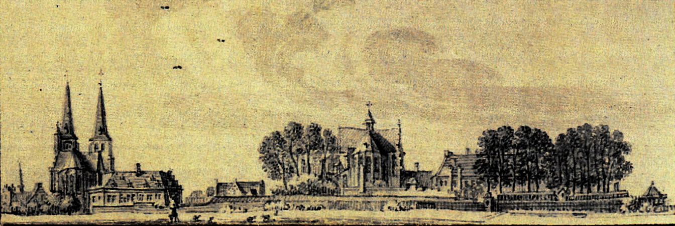 View of the Meuse river and the northeastern part of Maastricht, the Netherlands. To the left: the monastery and church of the Hospital Brothers of St. Anthony; to the right: the Commandry Nieuwen Biesen of the Knights of the Teutonic Order. Drawing by Jan de Beijer, 1740.